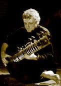 Picture of the sitarist Patrick Moutal